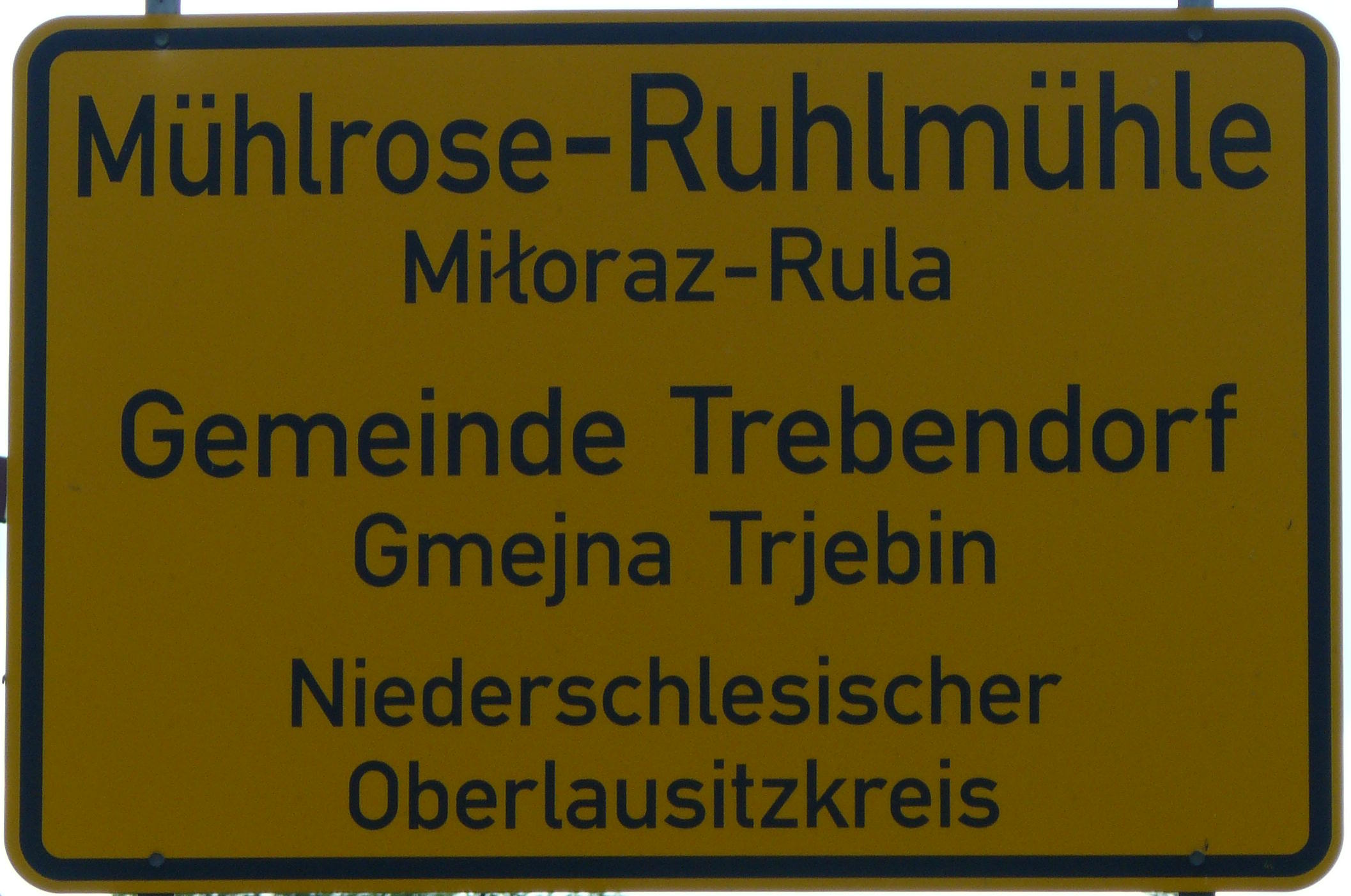 Town sign of Ruhlmühle, part of the village Mühlrose in the municipality Trebendorf (Saxony). It contains 95 characters. Mühlrose-Ruhlmühle Miłoras-Rula Gemeinde Trebendorf Gmejna Trjebin Niederschlesischer Oberlausitzkreis